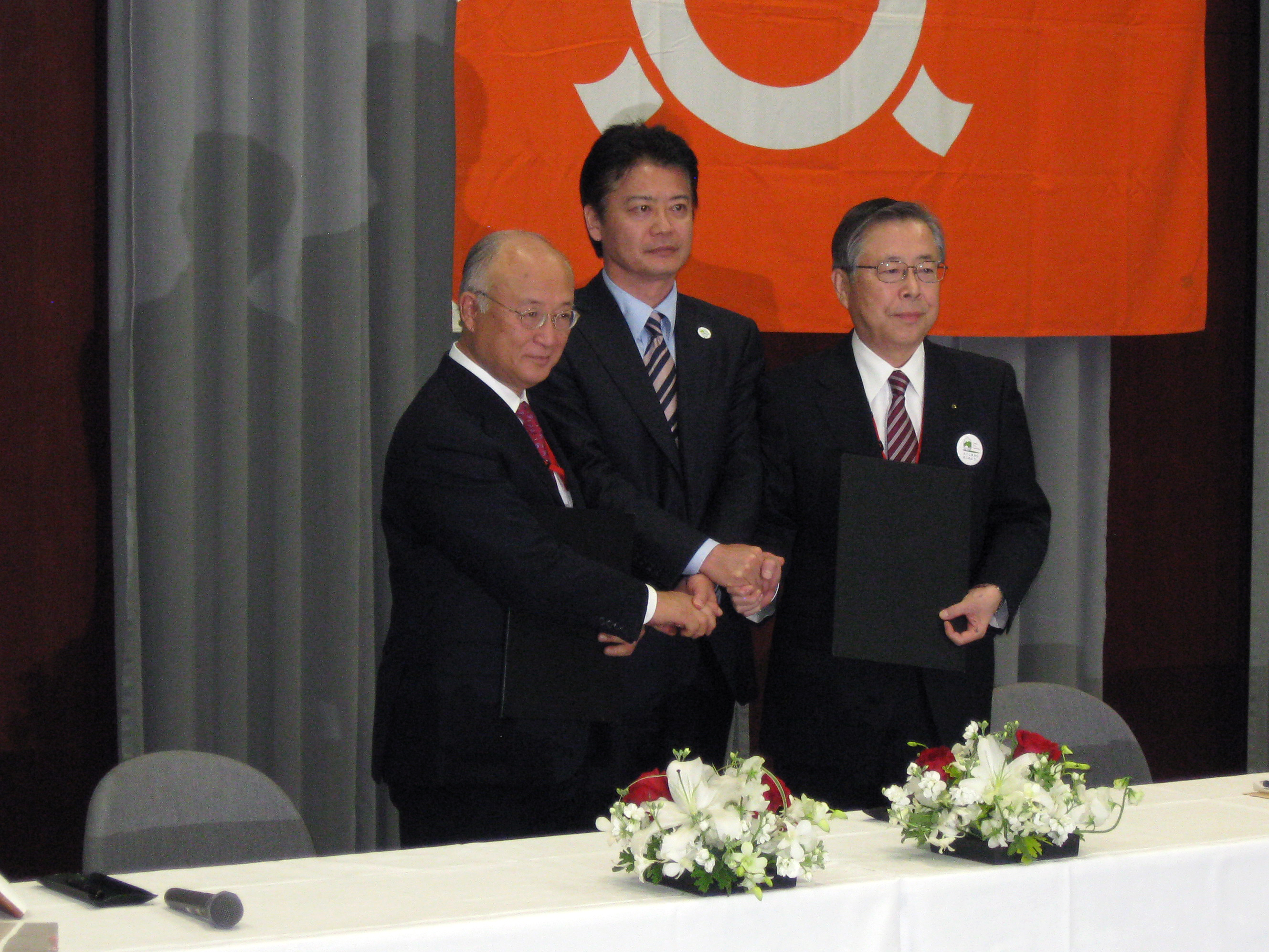 Yūhei Satō, Governor of Fukushima Prefecture, and Yukiya Amano, Director General of the International Atomic Energy Agency, signed the Memorandum of Cooperation with Kōichirō Gemba, Minister for Foreign Affairs, at the Fukushima Ministerial Conference on Nuclear Safety in Kōriyama City, Fukushima Prefecture on December 12, 2012.